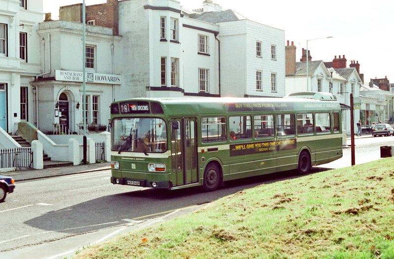 Maidstone & District bus no. 3546 (Leyland National) in London Road, Data from Geograph: Description: This single deck bus was built in 1976 for Maidstone & District. It is seen here in October 1988, operating on the Route 281 service to High Brooms. For more about the bus company see:- 1680566. ICBM: 51.126140570477, 0.25720796330072 Location: (about 1 km from) near to Royal Tunbridge Wells, Kent, Great Britain.